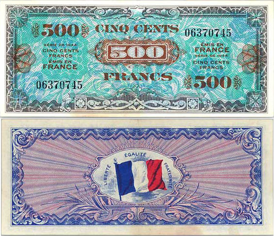 500 Franc